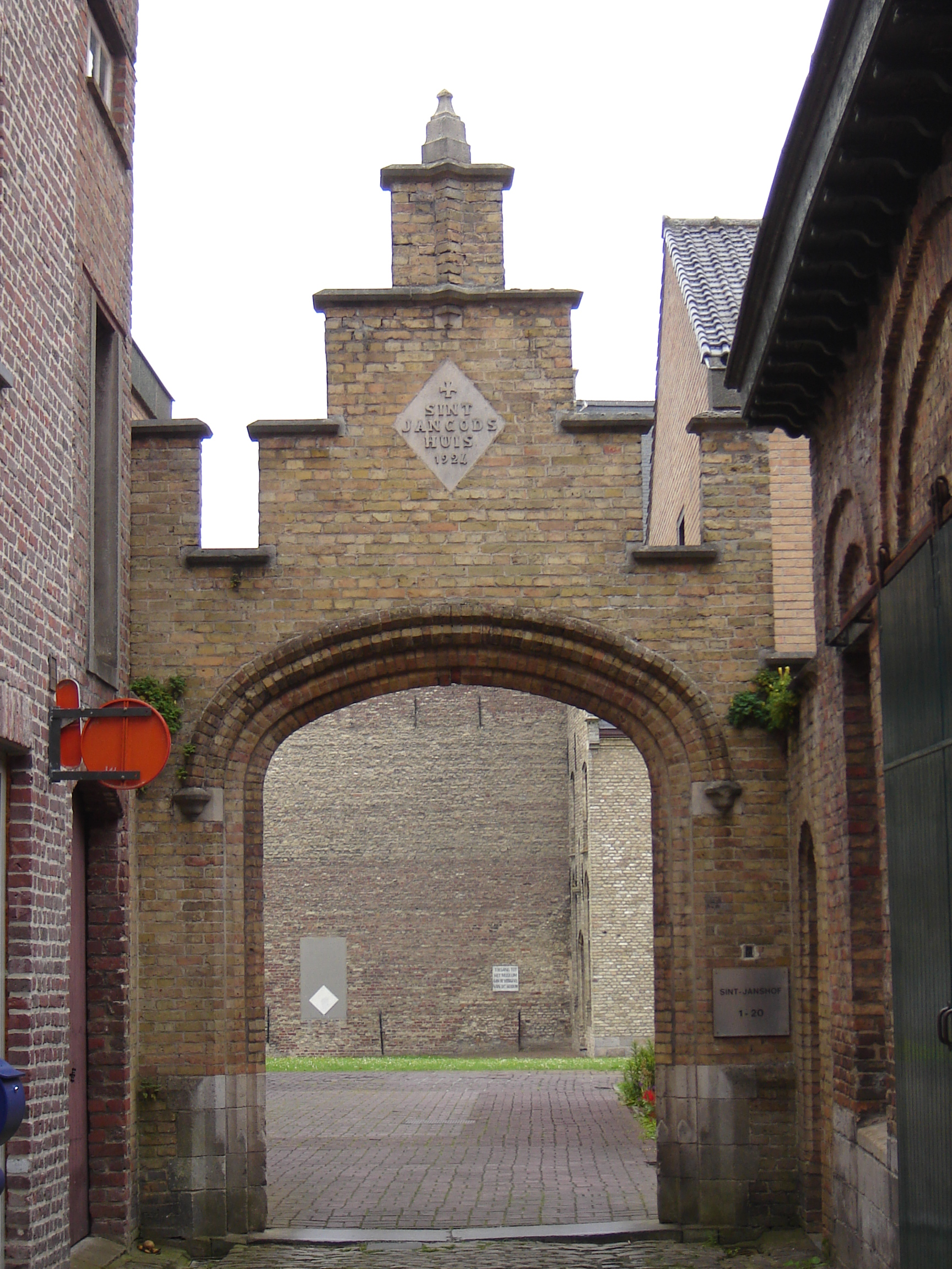 Gate towards Sint-Jansgodshuis in Ieper, West Flanders, Belgium